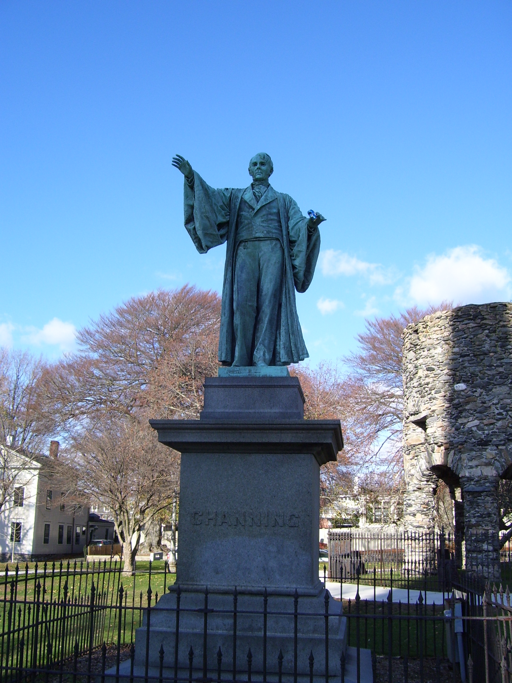 A statue of William Ellery Channing in Touro Park, Newport, Rhode Island.